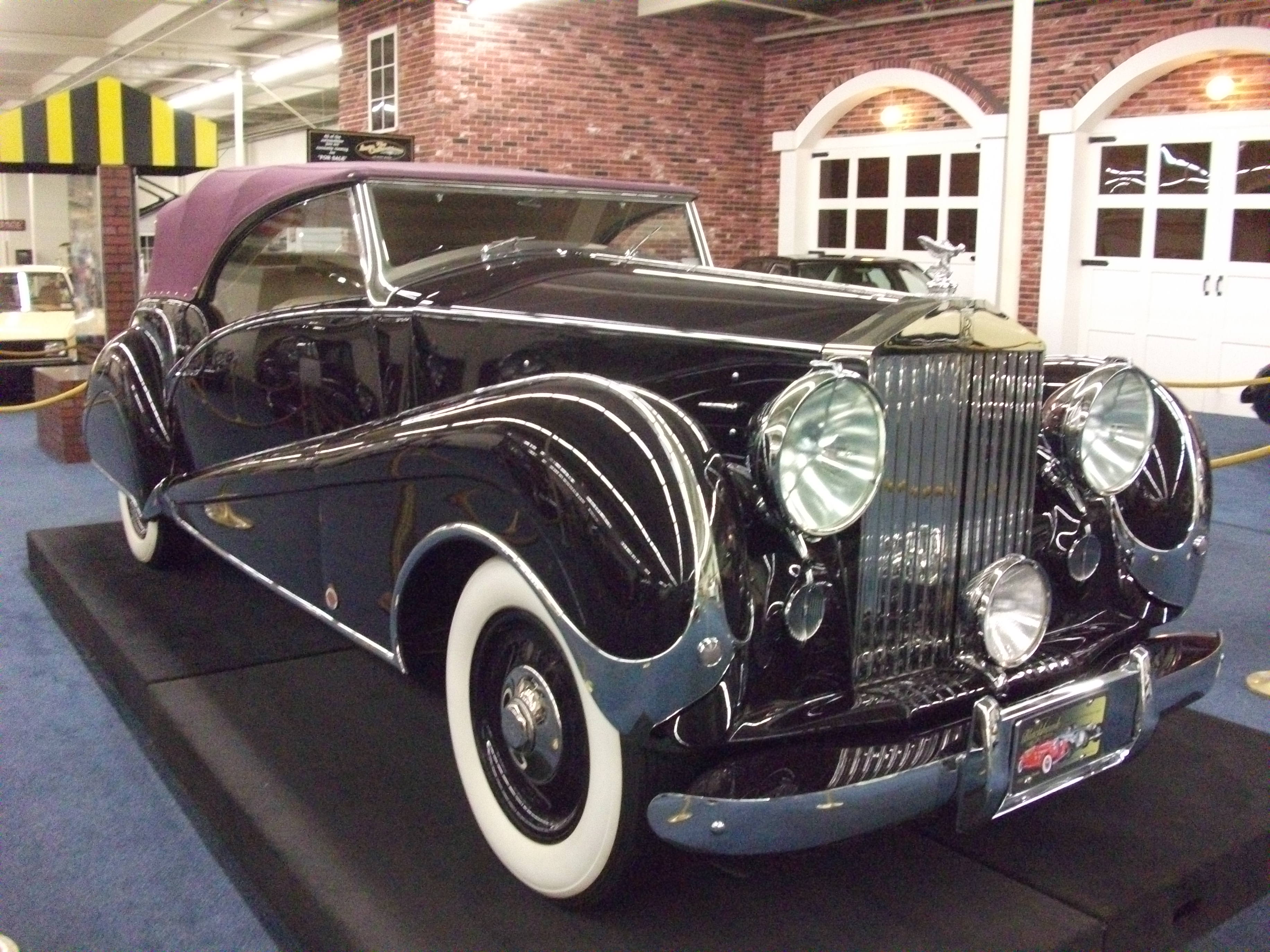 1947 Rolls Royce Silver Wraith drophead coupé